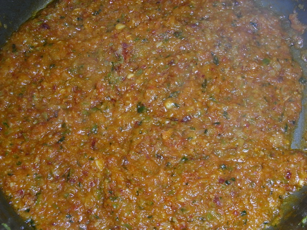 Sofrito